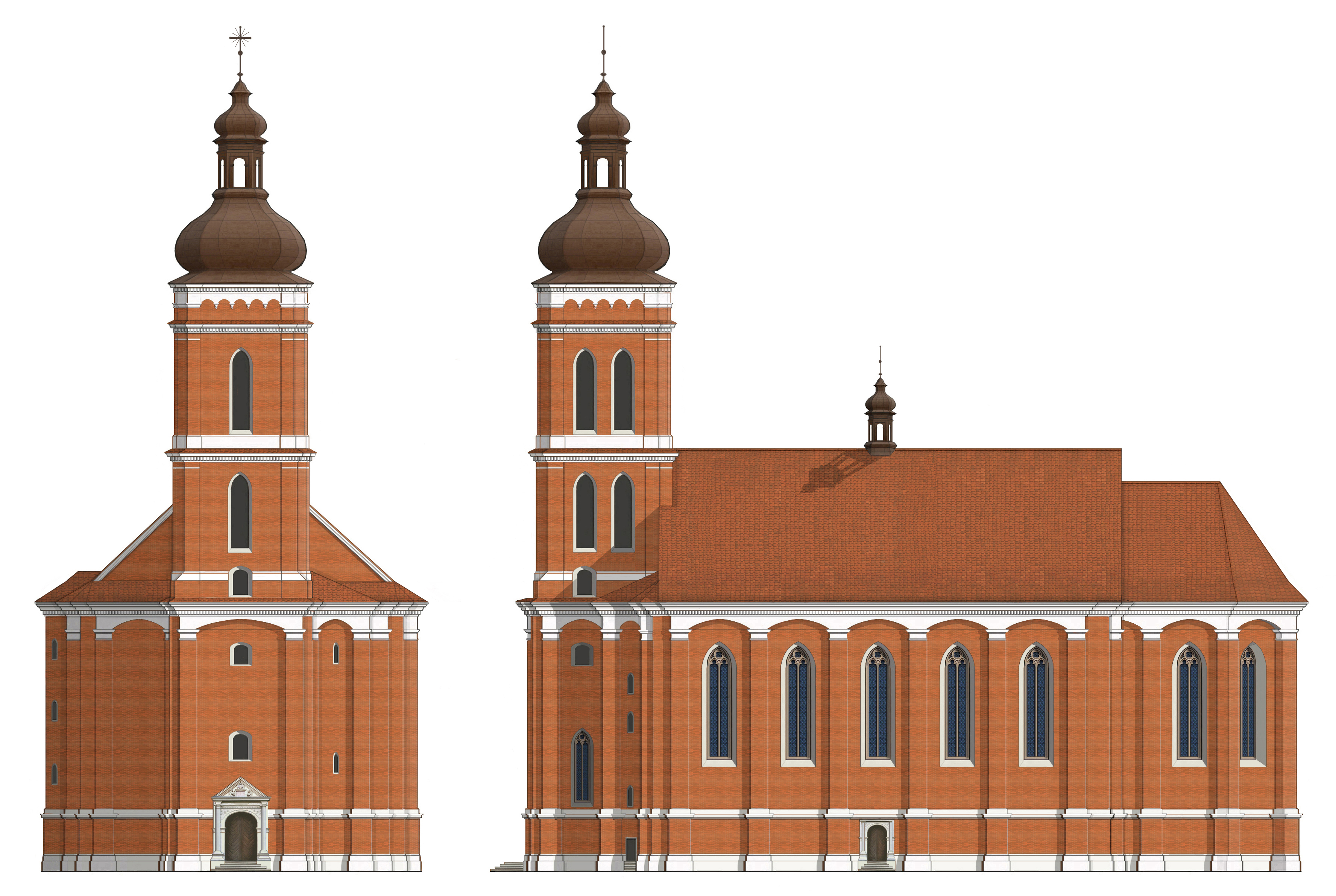 The Church of the Blessed Virgin Mary in Grodno for centuries was the most important Catholic church in the city. The building was destroyed by the communist regime.